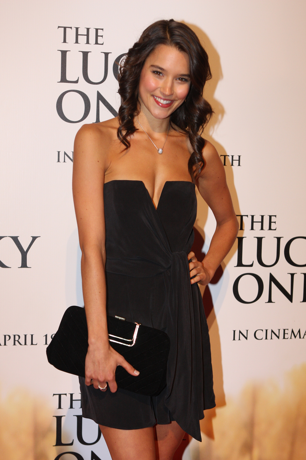 Actress Rhiannon Fish at The Lucky One World Premiere at Bondi Juction, Sydney, Australia